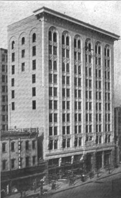 The Kearns Building (1909) in Salt Lake City, shortly after construction.